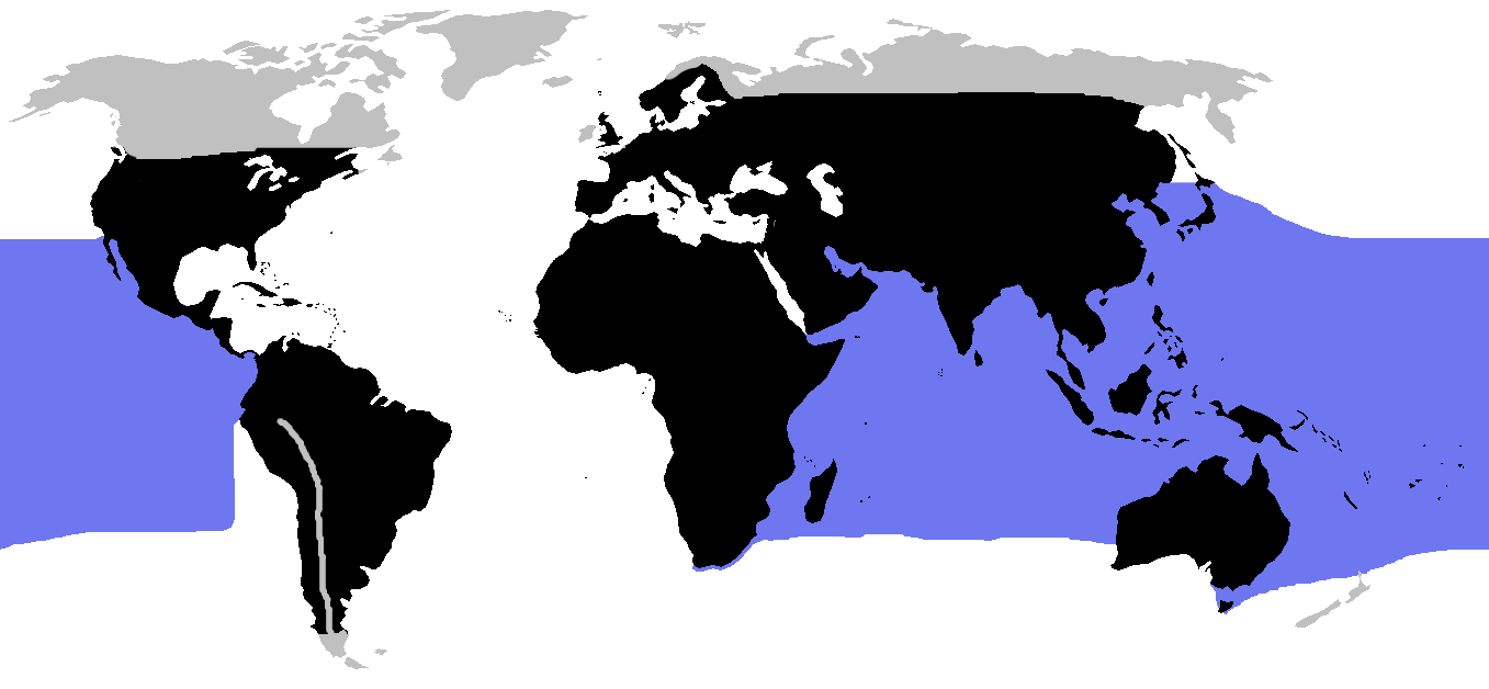 World distribution of snakes (Order Serpentes), after data from Cogger, H.G & Zweifel, R.G. (1998). Reptiles & Amphibians". ISBN 0121785602 - black is land with snakes, blue sea with snakes. grey is land without, white water without. Later, changes were made to reflect the absence of sea snakes in the Atlantic and the Red Sea, as well as to expand their range along the Pacific coast of the Americas and and in eastern Pacific. This is based on information from Campbell and Lamar (2004), Spawls and Branch (1995), Parker and Grandison (1977), Priede (1990), Mehrtens (1987) and U.S. Navy (1991). See Sea snake for these references.